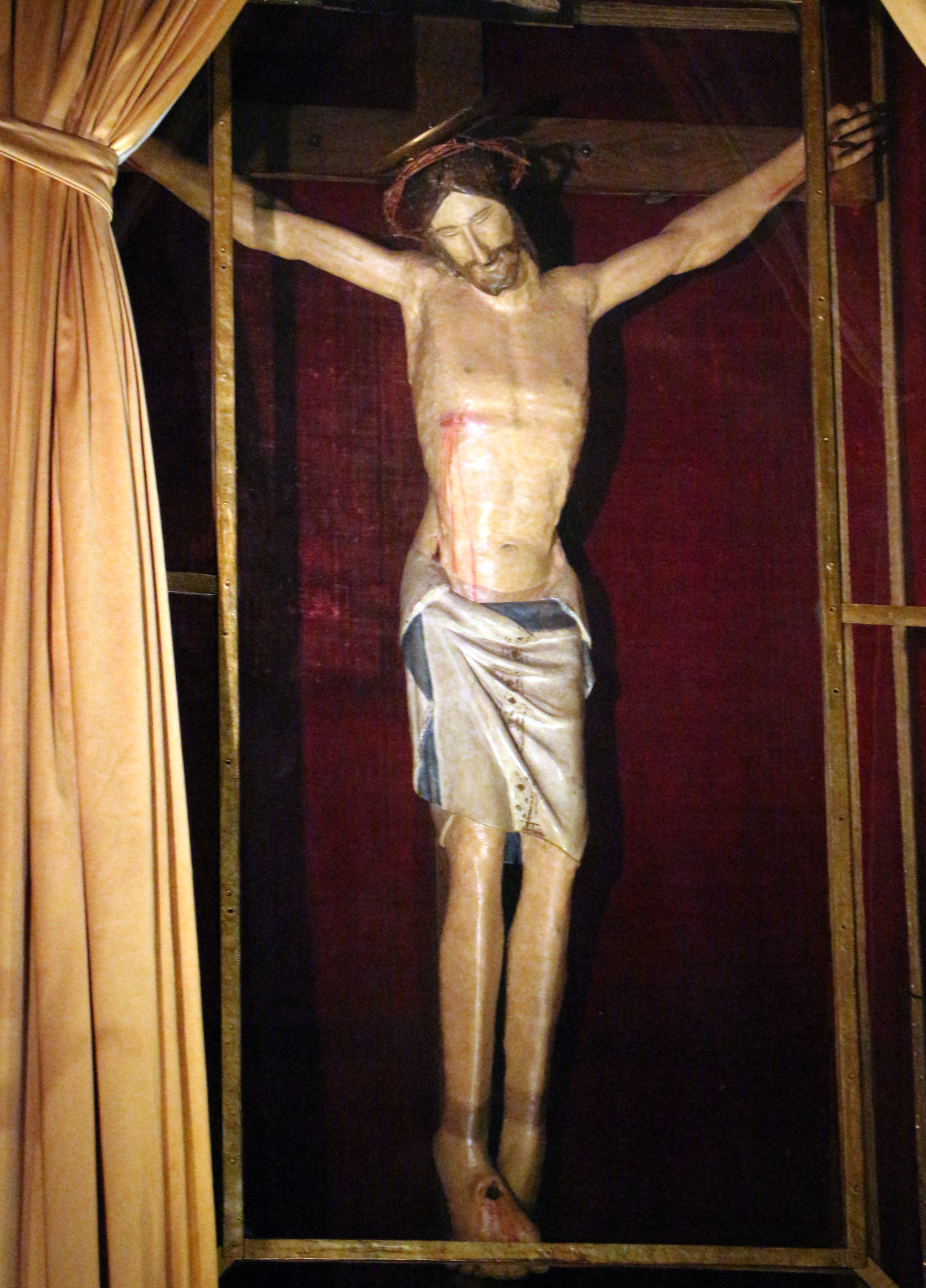 Santo Stefano (Campi Bisenzio)